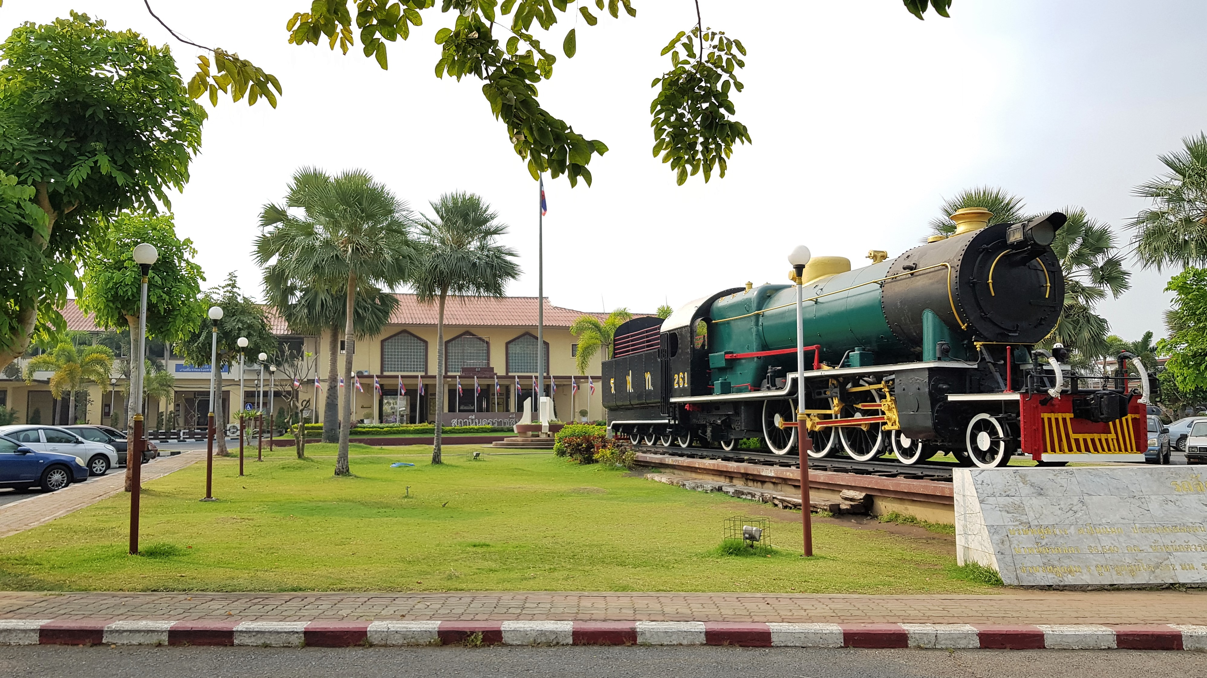 The front of Korat's main train station with a steam locomotive on display